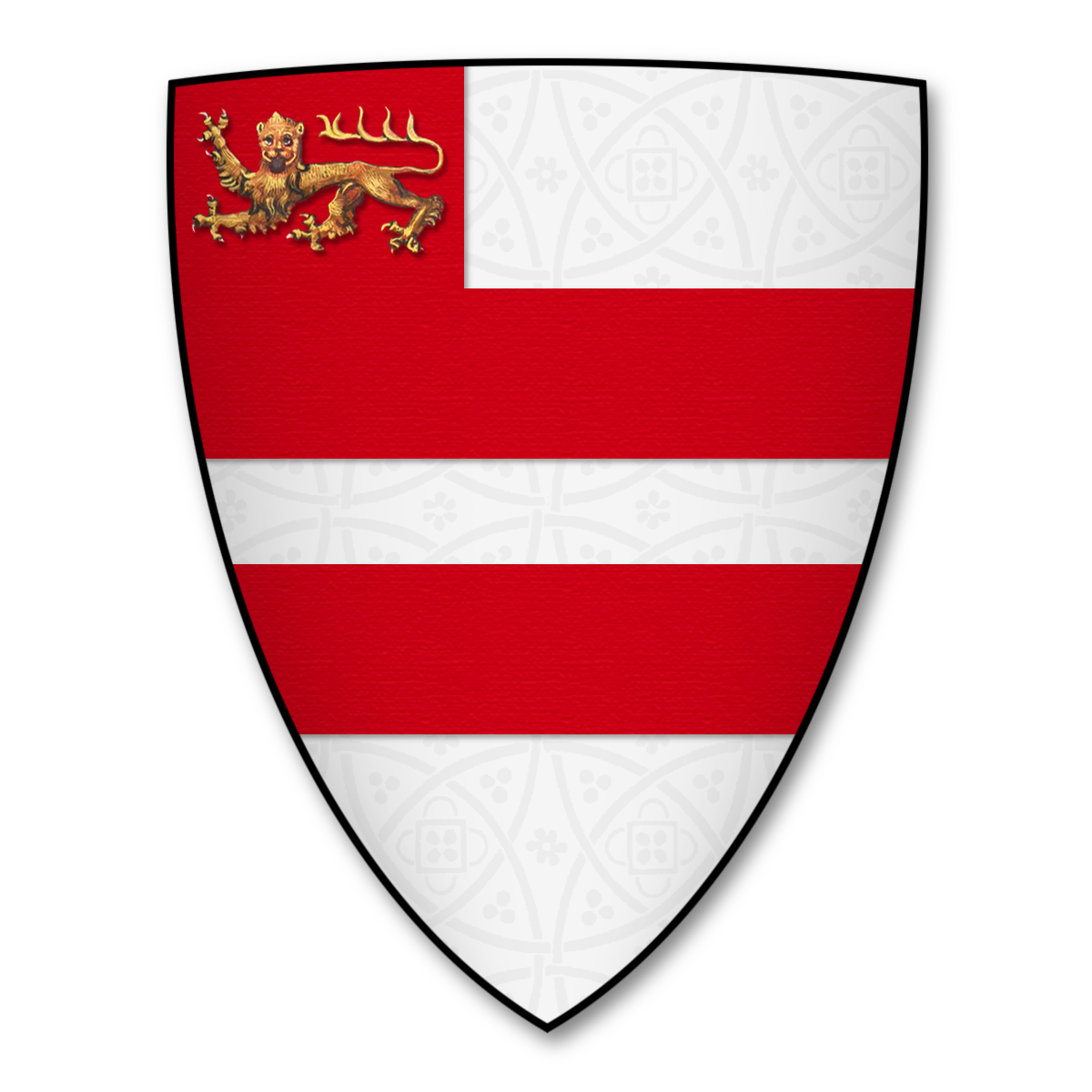 Coat of Arms of John de Lancaster, as blazoned in the Caerlaverock Roll (K-009: "Johans de Langcastre") "Johans de Langcastre entre meins Mes ke en lieu de une barre meins Quartier rouge e jaune lupart." Arms: Argent, two bars and on a quarter gules a lion passant guardant Or.